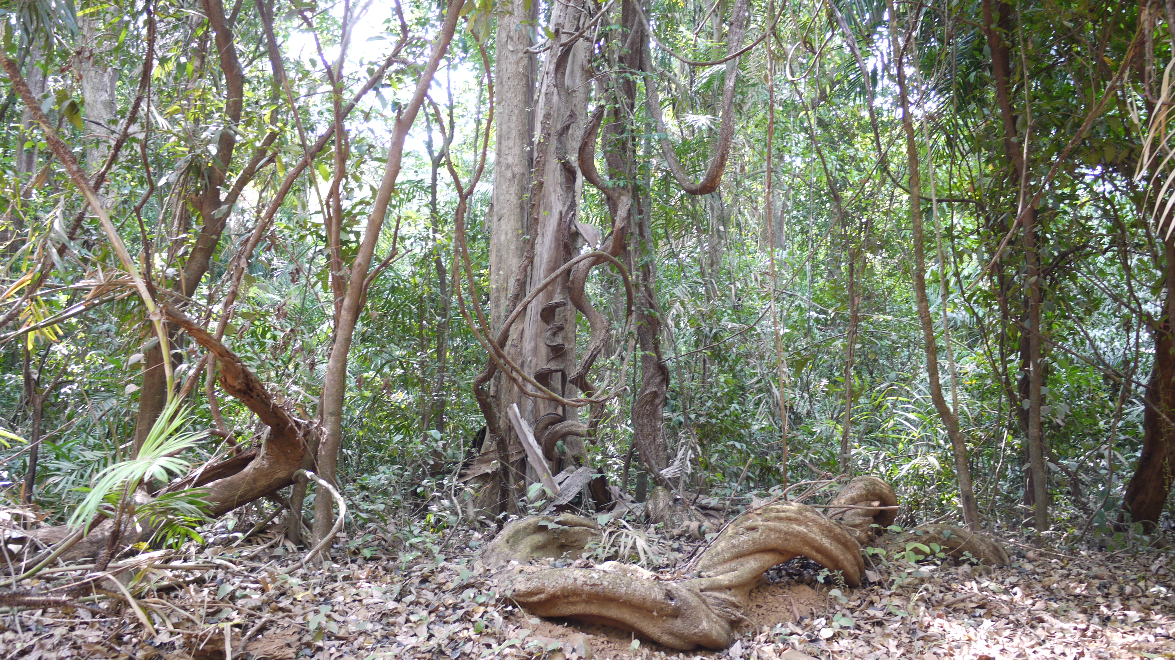 ... Mollem National Park